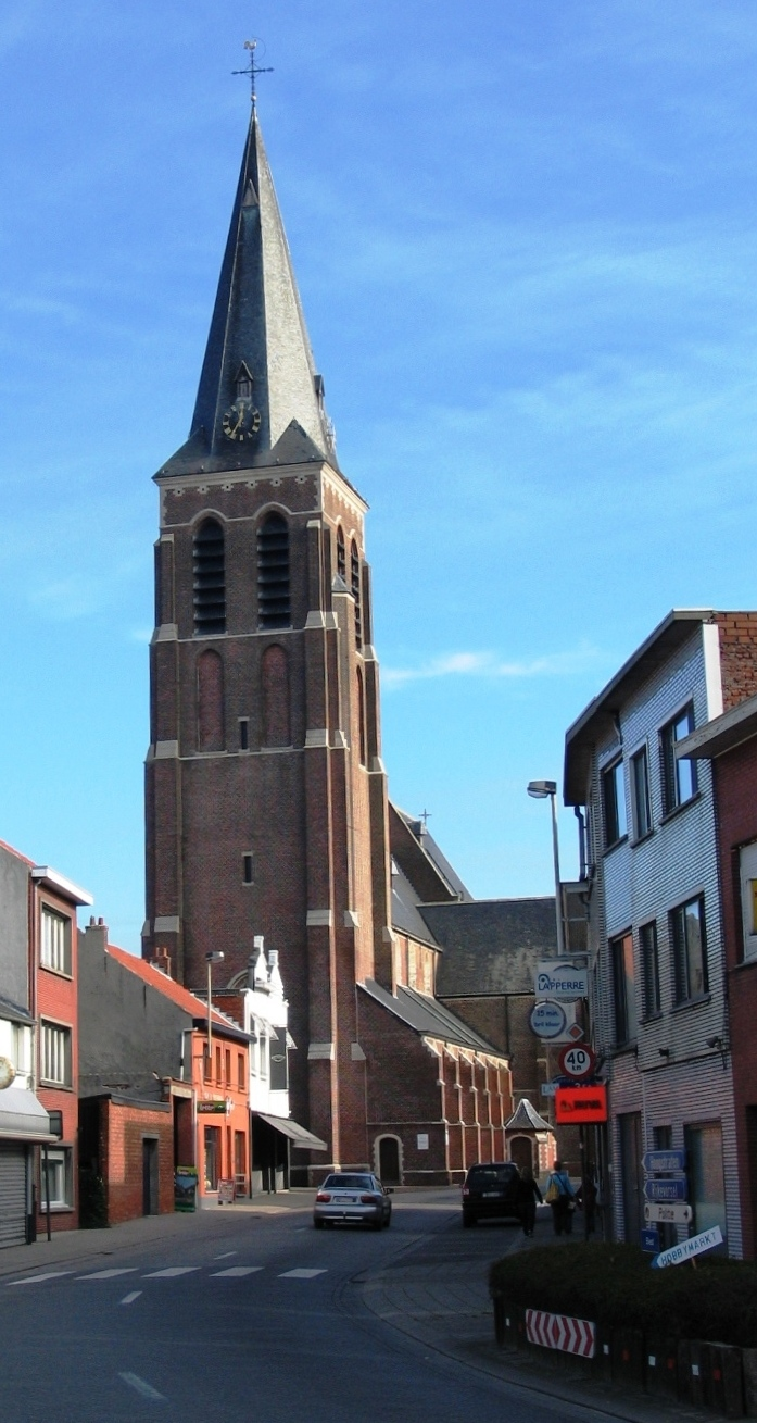 Church of Brecht, Sint Michael